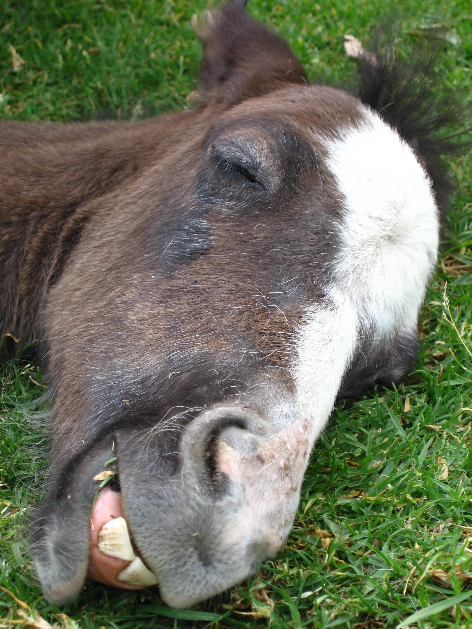 A colt napping in the grass.